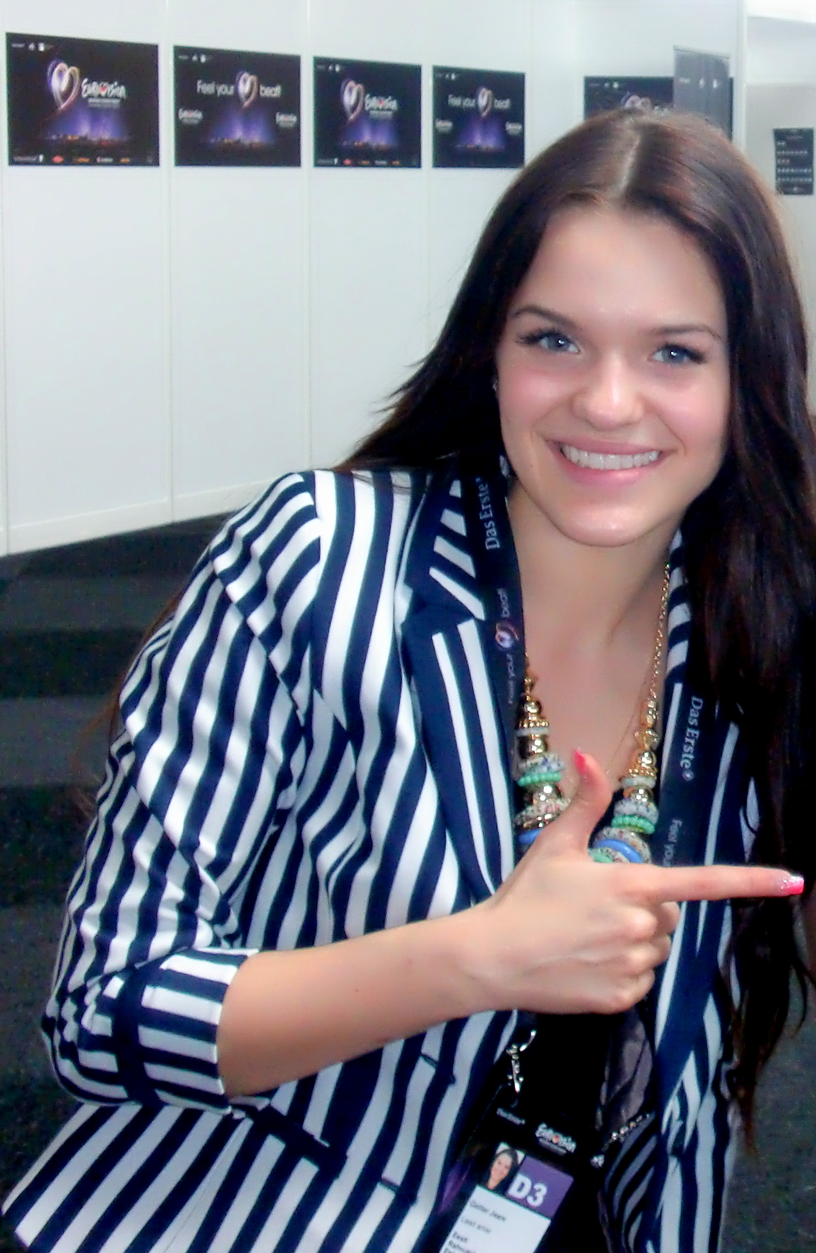 Estonian singer Getter Jaani on the final day at the Eurovision Song Contest 2011 in Düsseldorf.